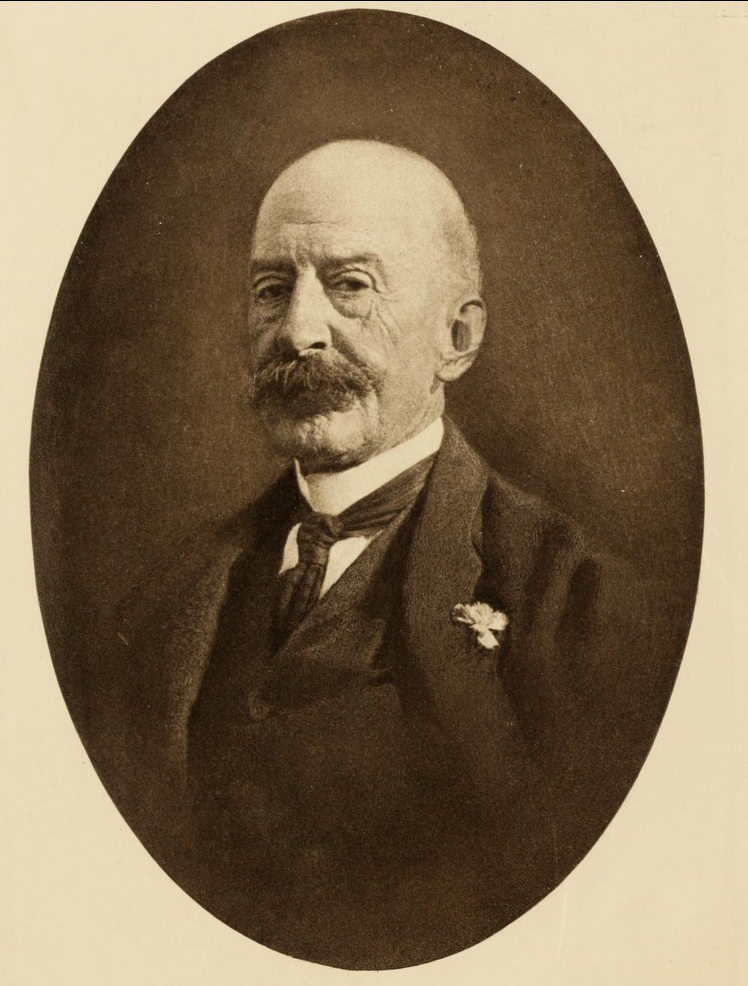 Portrait Winslow Homer at the age of 72, from a photograph taken at Prouts Neck in 1908 [from the frontispice of William Howe Downes biography printed in 1911].